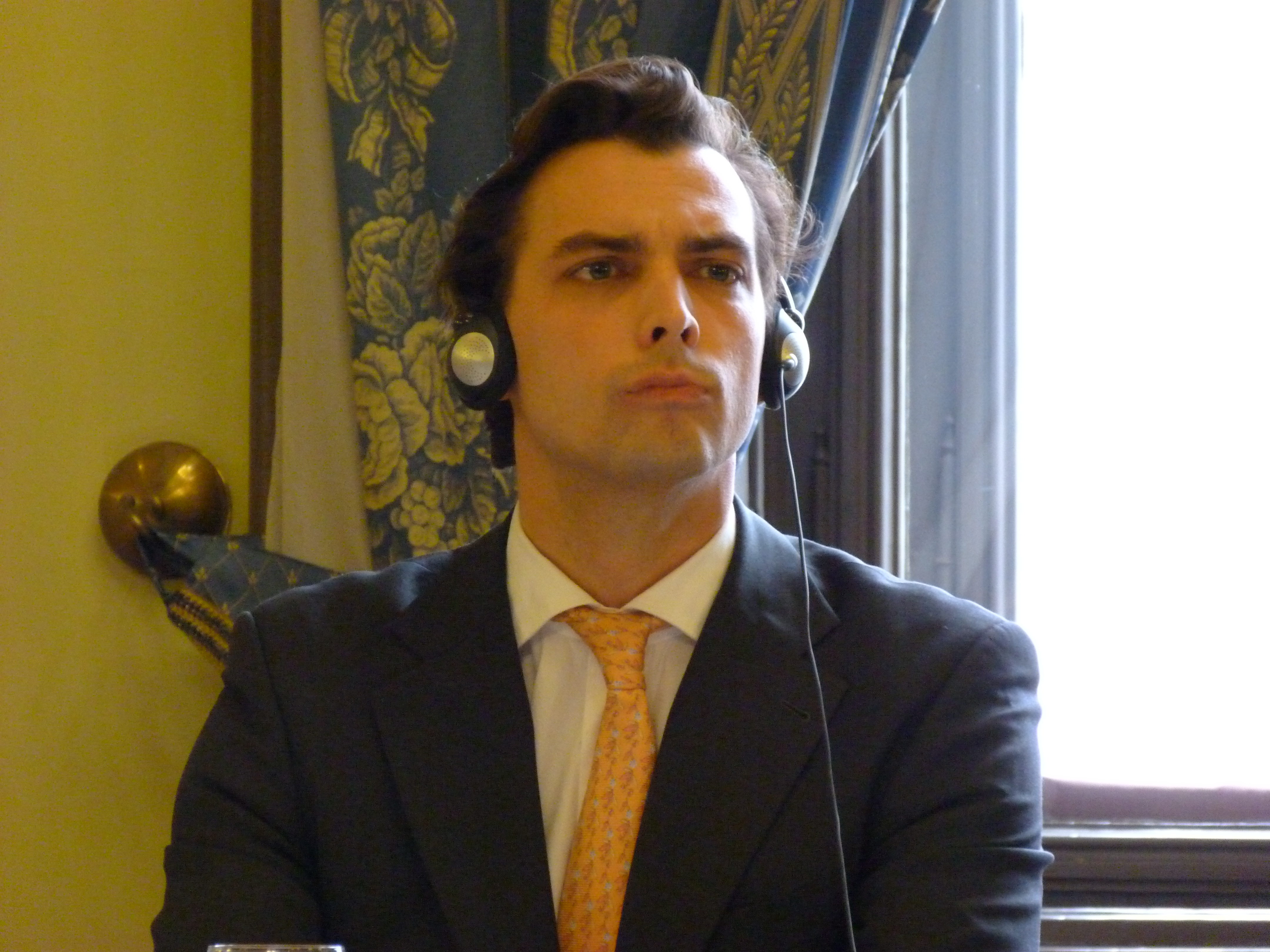 Live on the 8th of February, 2016. Hungarian Academy of Sciences. Századvég Alapítvány. Thierry Baudet, the Dutch journalist, politician, broadcaster and author argued that national borders need to be maintained if representative government is to survive. To uphold borders is to claim jurisdiction; to claim the right to decide on the law. As nation state makes such a claim, it seeks jurisdiction over a particular territory. Borders work two-ways, and while they grant the nation state exclusive jurisdiction, they also limit the nation state’s claims to the designated territory. Supranationalism and multiculturalism undermine the idea of exclusive territorial jurisdiction. Supranationalism grants institutions the power to break through national borders and to overrule the nation state’s territorial arrangements. In this way, borders become increasingly porous. Multiculturalism, meanwhile, not only deligitimizes the nation state’s borders by weakening the collective identity of the people living behind them; it also encourages religious sub-groups to invoke rules from beyond the nation state’s borders, thereby undermining the very idea of territorial jurisdiction. ‘God’s heart has no borders’, to put it bluntly.1 Supranationalism and multiculturalism are thus antithetical to national sovereignty and to the borders therein implied. Supranationalism dilutes sovereignty, and so brings about the gradual dismantling of borders from the outside; multiculturalism weakens nationality, thus delegitimizing their existence altogether from the inside. !e idea of political organization that fundamentally opposes supranationalism and multiculturalism – the idea of the nation state – has been declared ‘outdated’ and ‘irrelevant’ by an overwhelming number of commentators. In: )